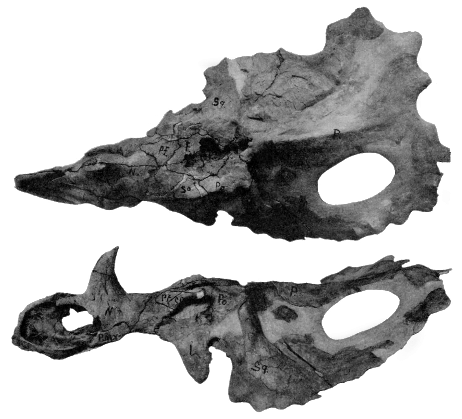 Monoclonius lowei CMN 8790. Ceratopsidae from Alberta. Journal of Paleontology 14: 468-480.